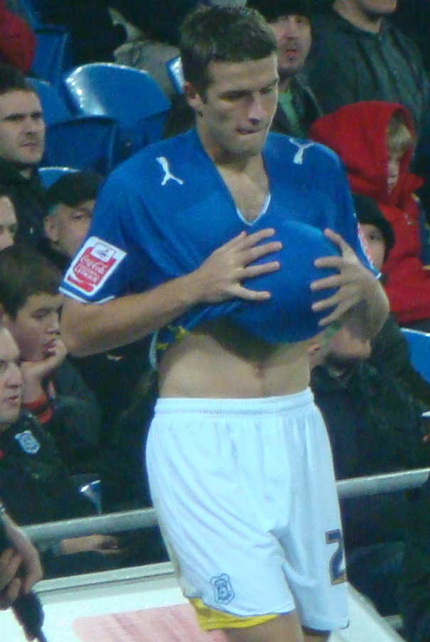 01/11/09 Cardiff City V Nottingham Forest, Cardiff City Stadium, Cardiff, Wales